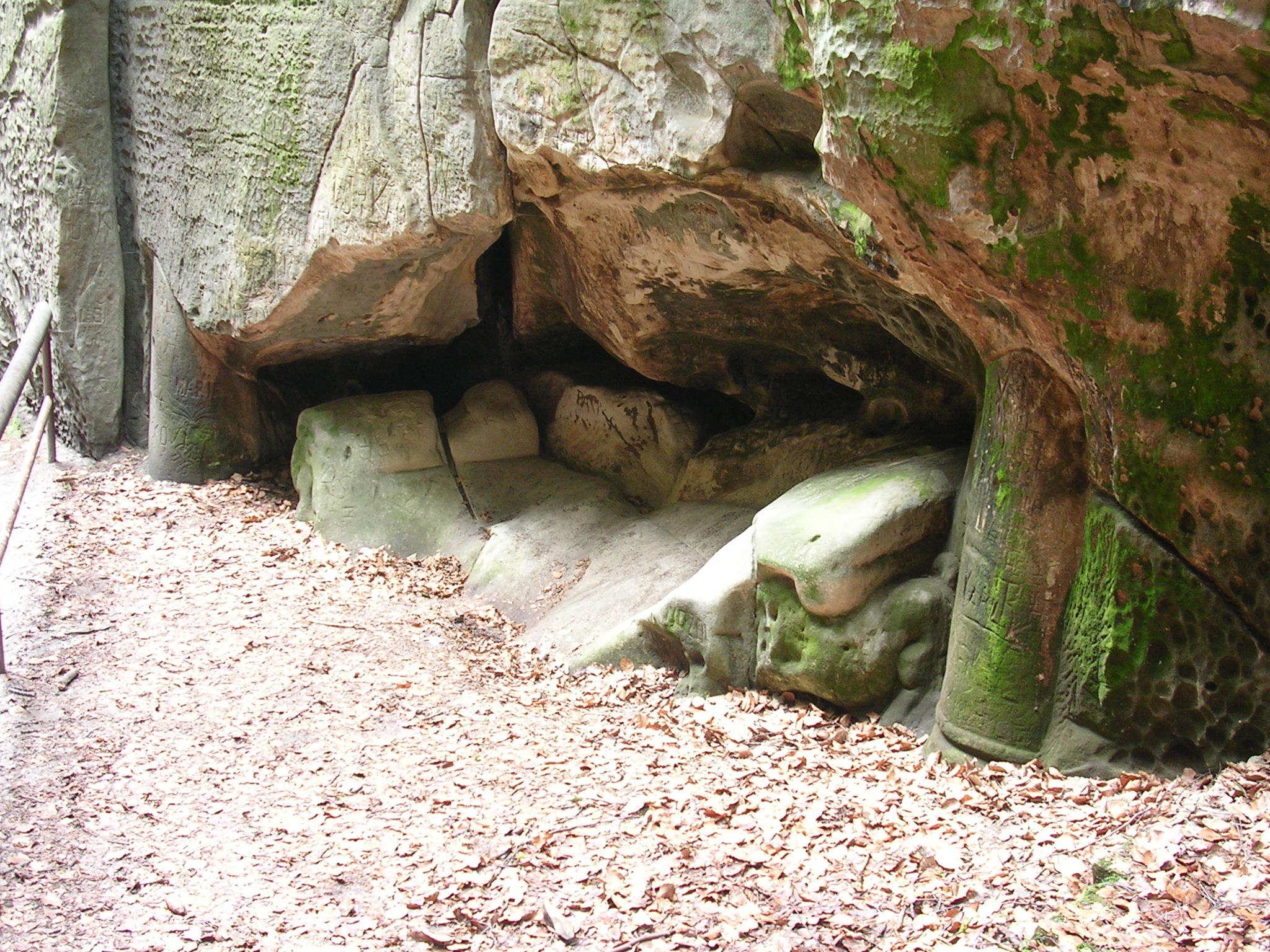 Rocks of Hrubá Skála, Liberec Region, the Czech Republic.